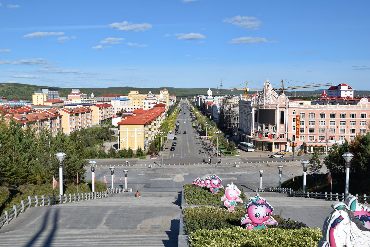 Xilinji Town, Mohe